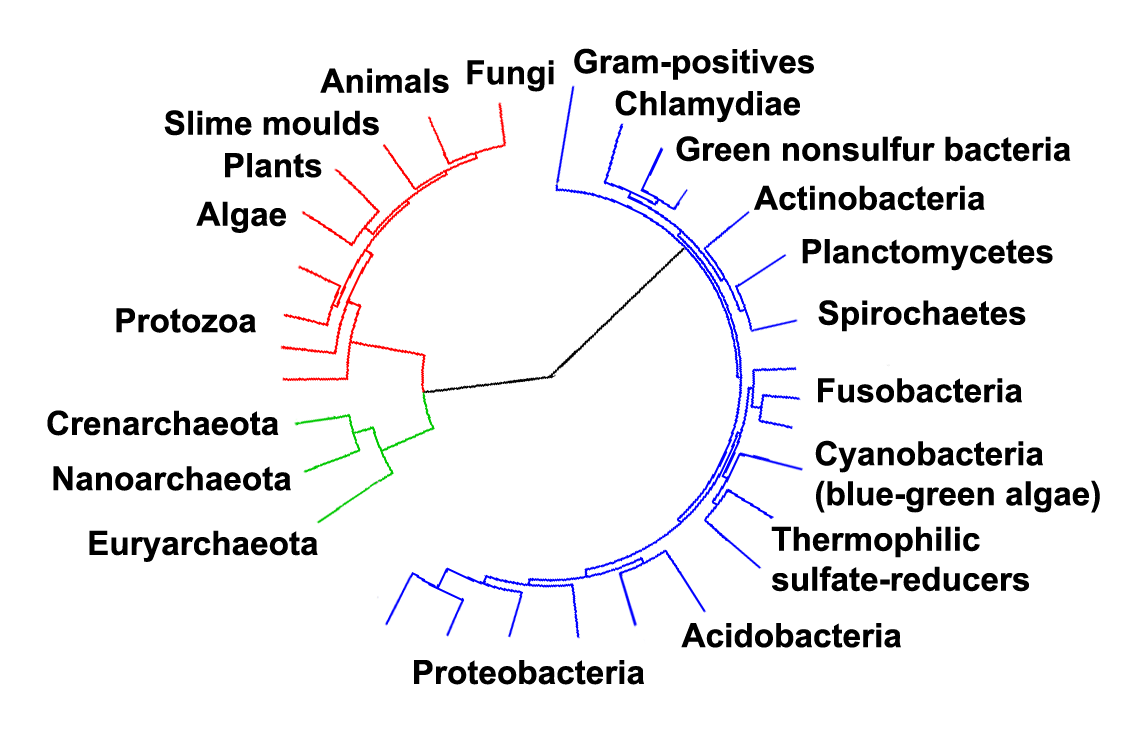 A highly resolved Tree Of Life, based on completely sequenced genomes [1]. The image was generated using iTOL: Interactive Tree Of Life[2], an online phylogenetic tree viewer and Tree Of Life resource. Eukaryotes are colored red, archaea green and bacteria blue. ↑ Ciccarelli, FD (2006). "Toward automatic reconstruction of a highly resolved tree of life." (Pubmed). Science 311(5765): 1283-7. ↑ Letunic, I (2007). "Interactive Tree Of Life (iTOL): an online tool for phylogenetic tree display and annotation.". Bioinformatics 23(1): 127-8.